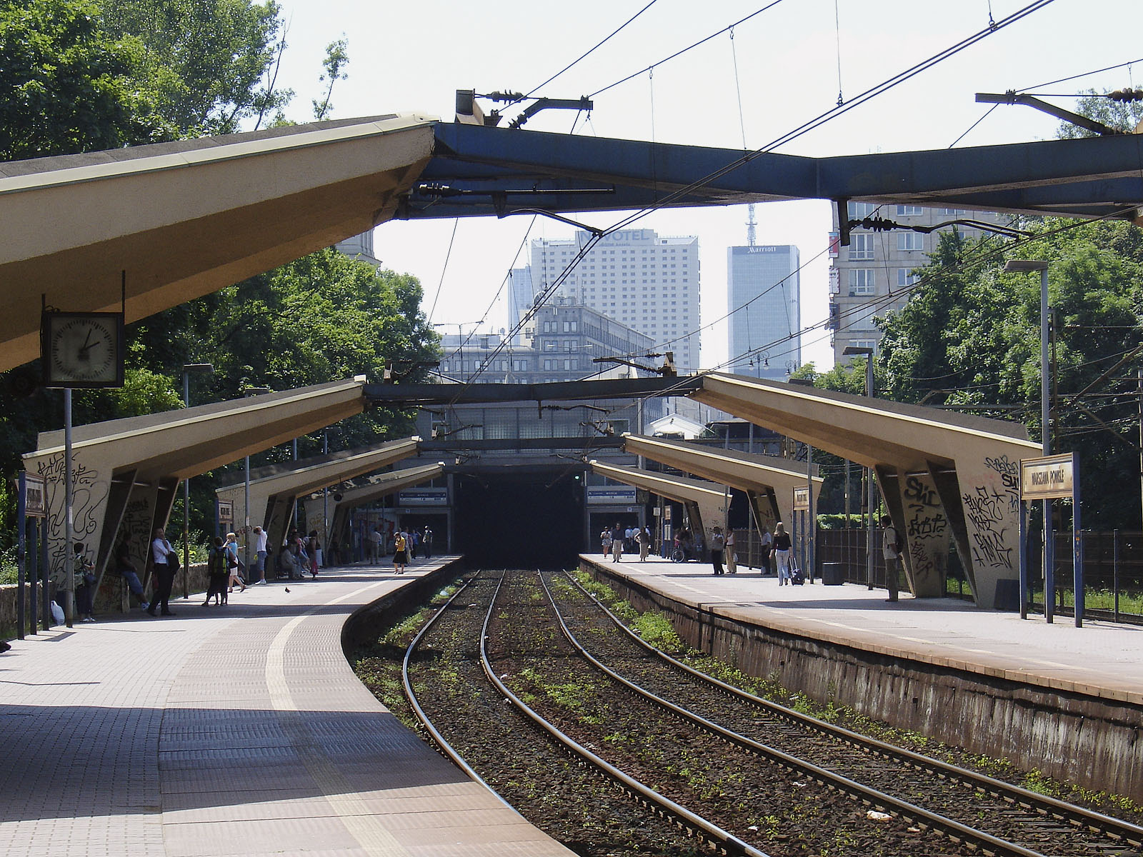 Platforms of Warszawa Powiśle railway station. View from East end towards entrance to the tunnel.